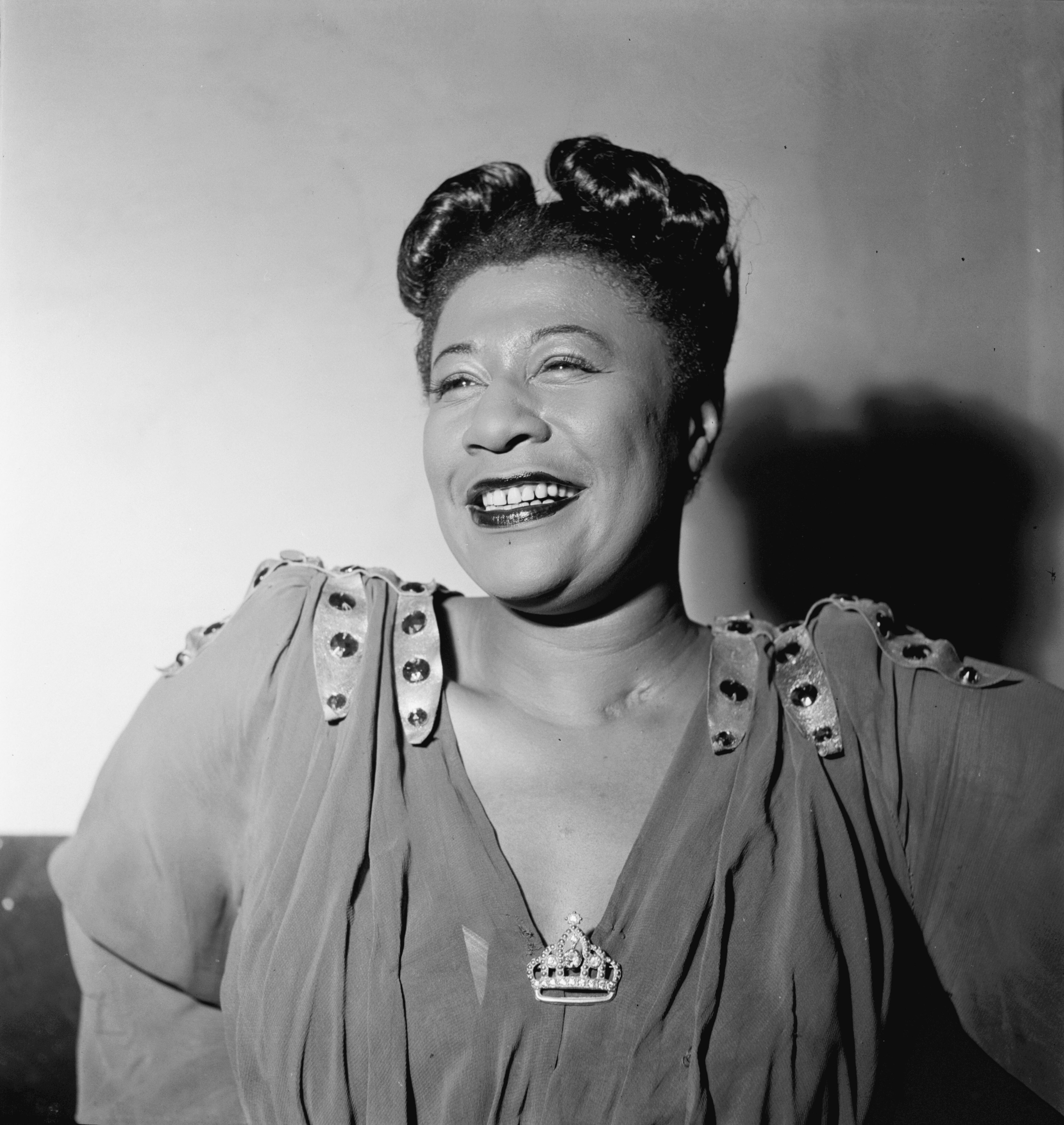 Ella Fitzgerald, November 1946. Photography by William P. Gottlieb.